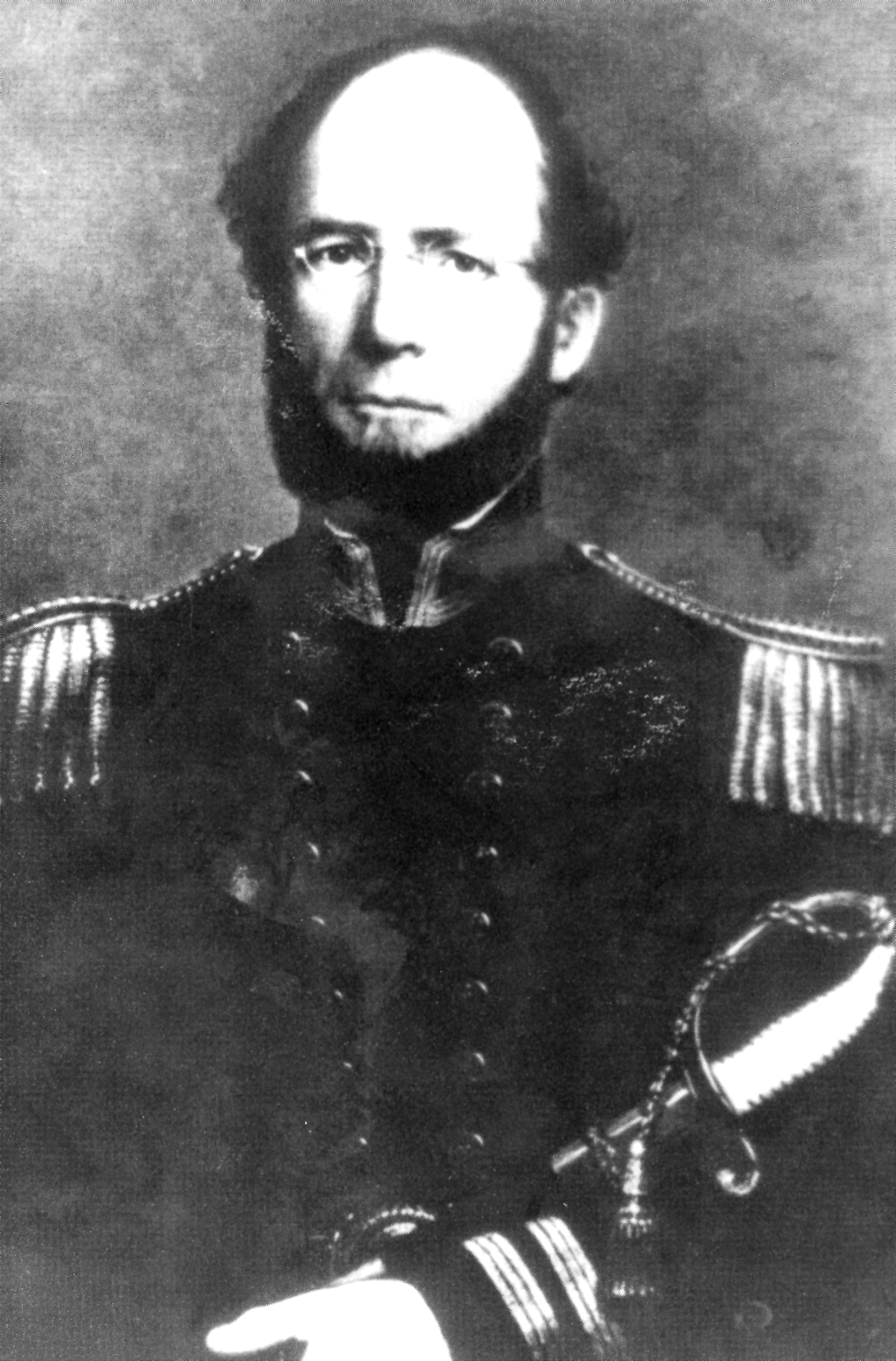 Scanned from my own book that is out of copyright, edited image by making it cleaner Image is over 100 years old and is in the public domain. -Brother Officer